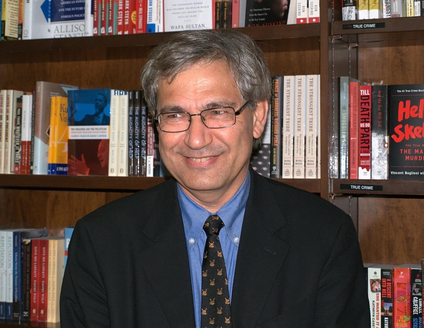 Nobel laureate and Turkish best-selling novelist Orhan Pamuk discussing his new book The Innocence Museum at Barnes & Noble Union Square, New York City.